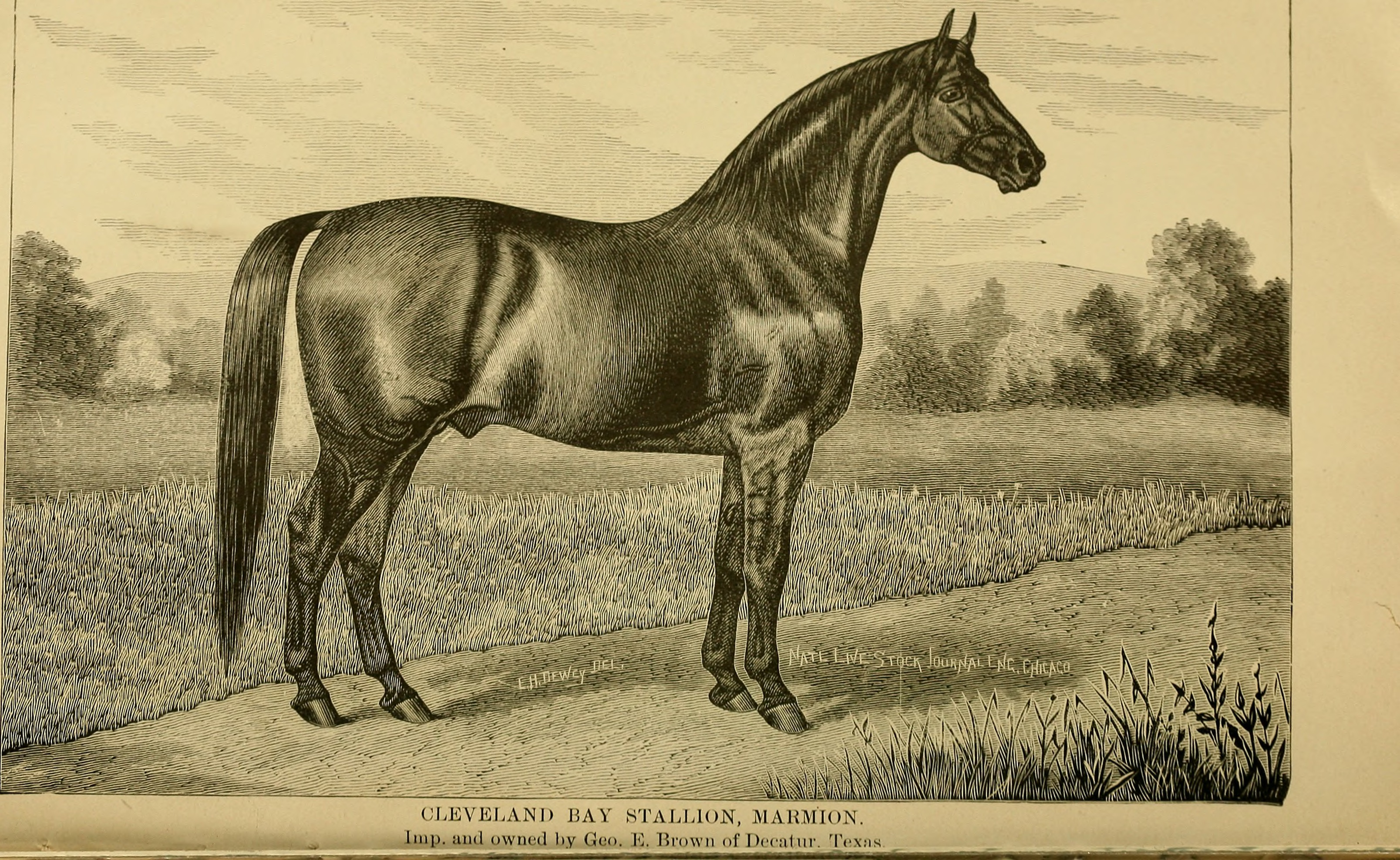 Title: American horses and horse breeding Year: 1895 (1890s) Authors: Dimon, John. (from old catalog) Subjects: Horses Publisher: Hartford, Conn. , J. Dimon Text Appearing Before Image: ' Text Appearing After Image: '